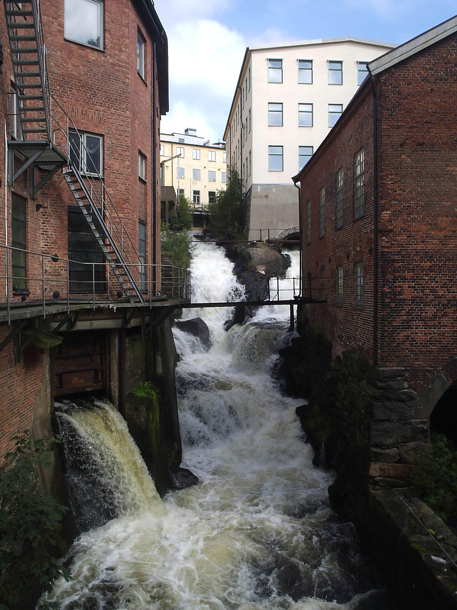 Photo by Harri Blomberg.